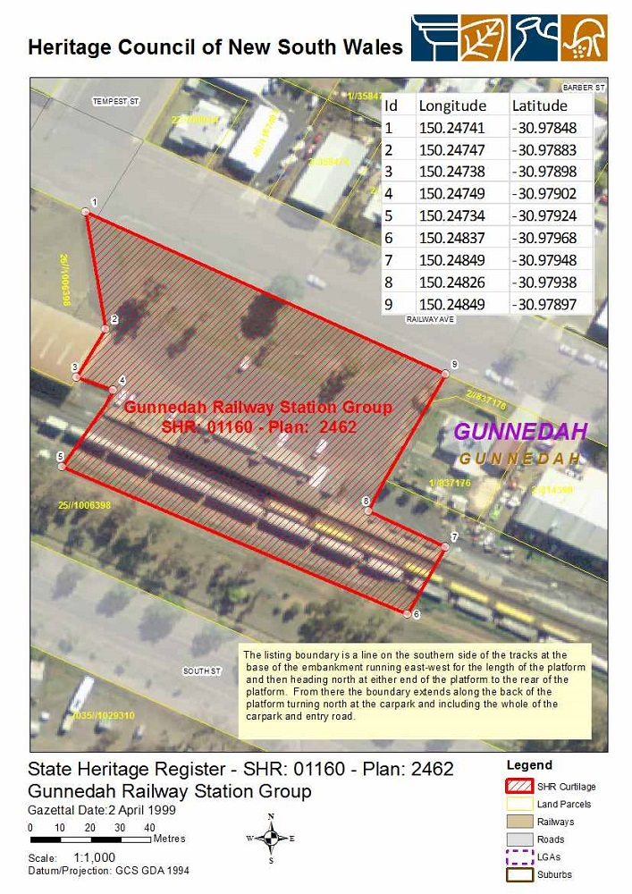 Gunnedah railway station: SHR Plan No 2462